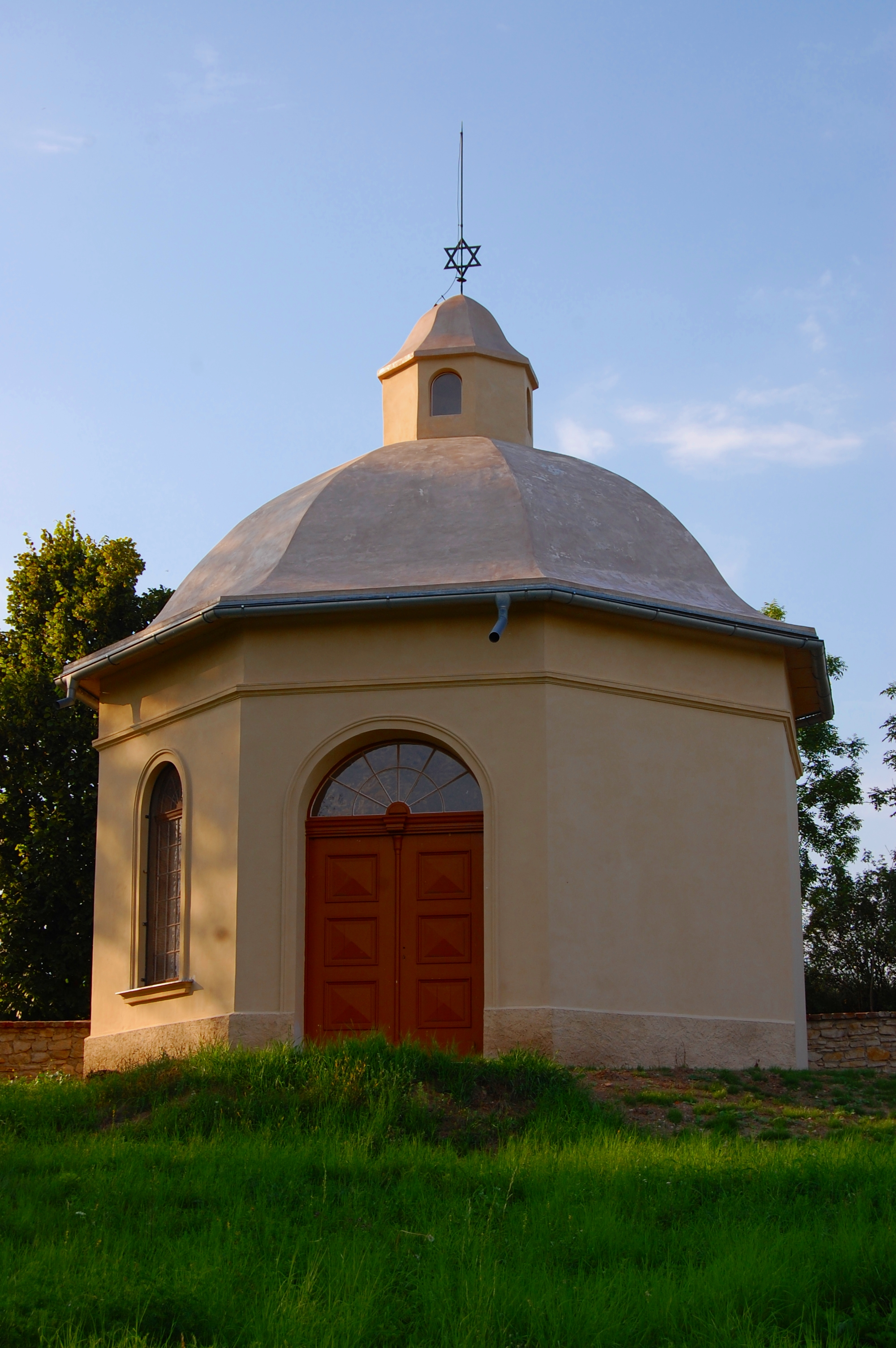 Ceremonial hall at Jewish cemetery in Radouň, Czech Republic